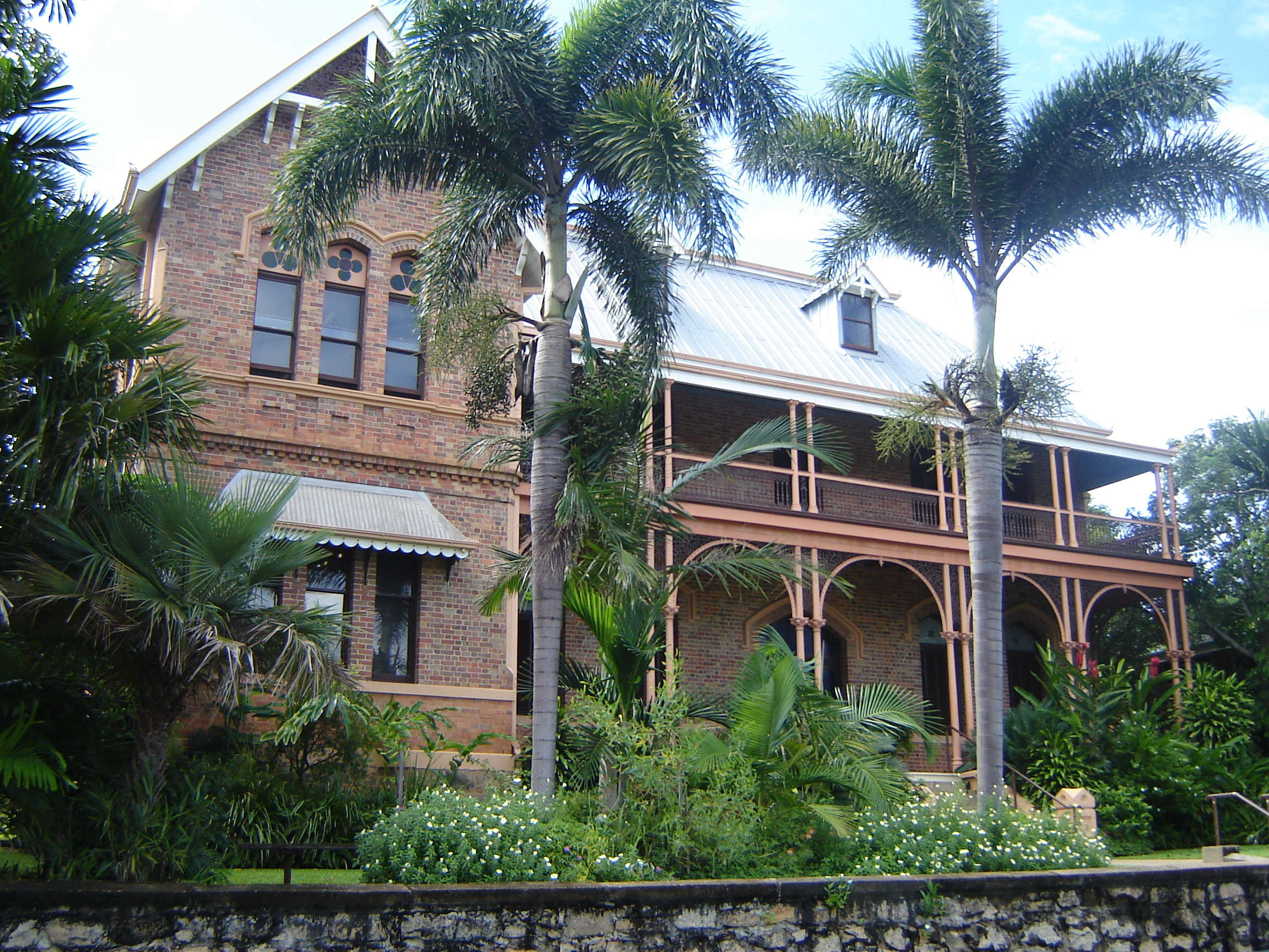 James Cook Museum at Cooktown. The museum has many artefacts from settlement and indigenous culture as well as a history of the establishment of Cooktown. Photo taken by Frances 76.